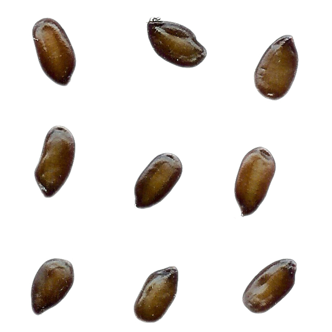 Senna surattensis seeds